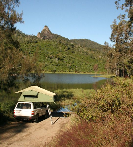 Gordigear roof tent on a Toyota Landcruiser